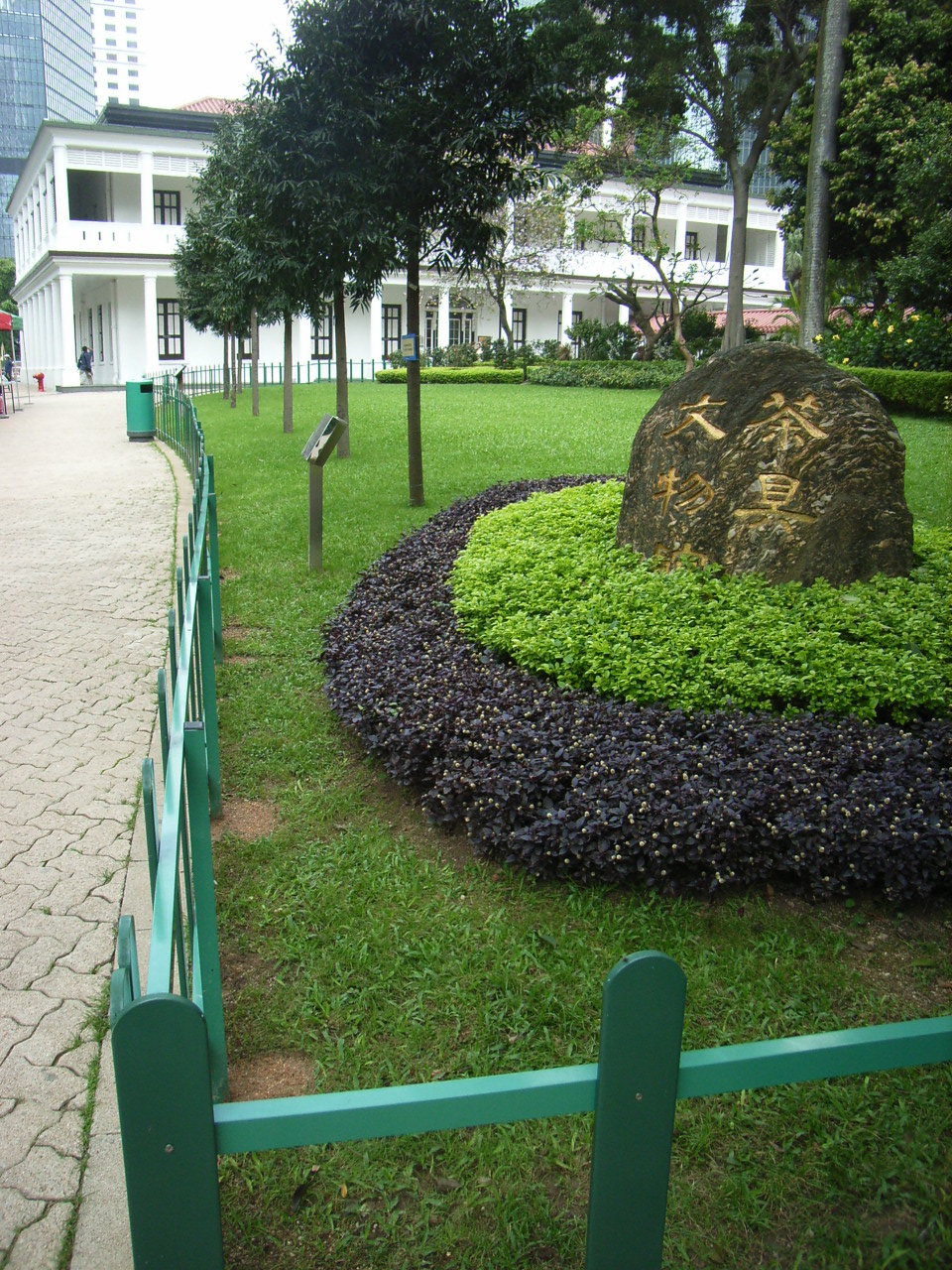 香港茶具文物館 Flagstaff House Museum of Tea Ware, Hong Kong